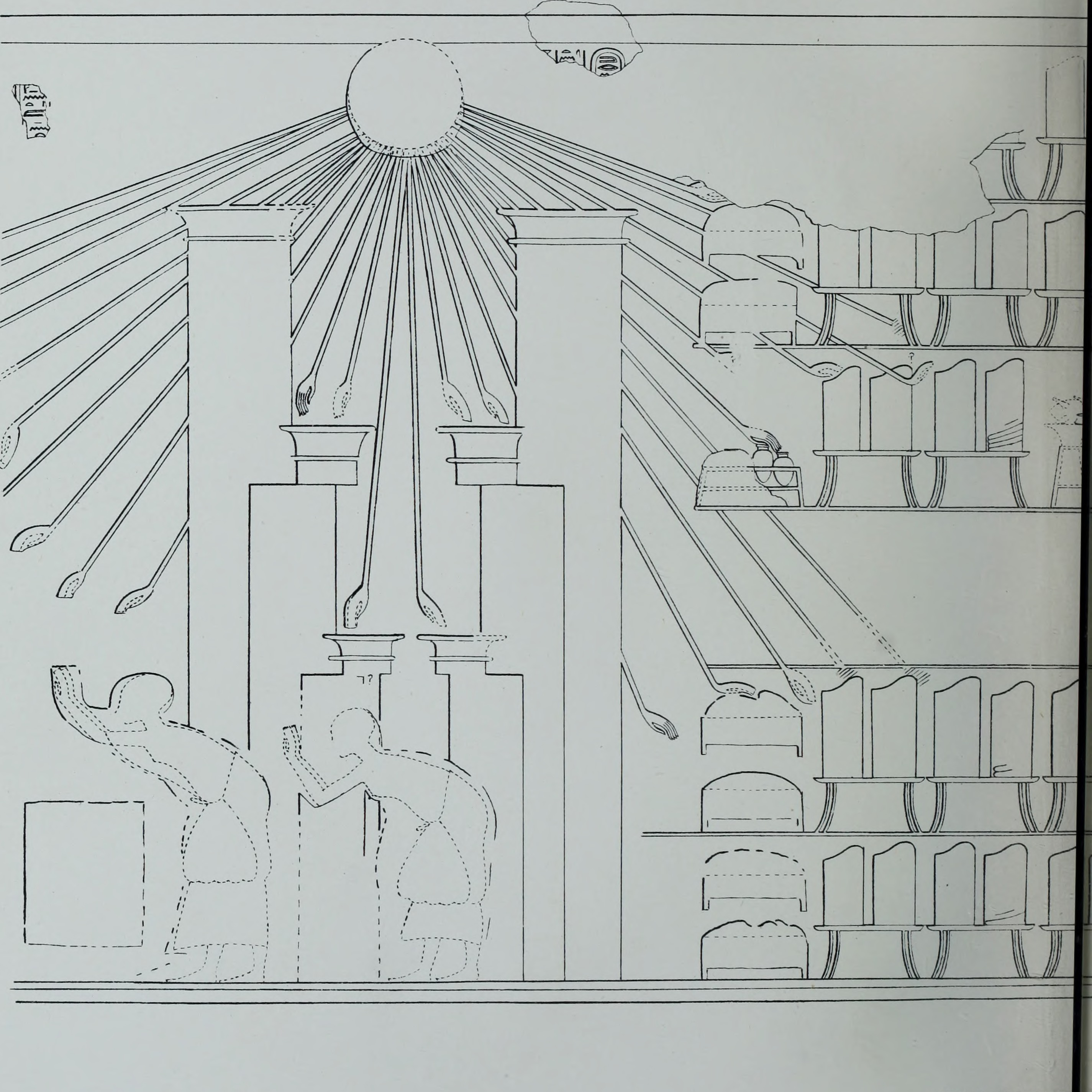 Title: Archaeological survey of Egypt memoir Year: 1893 (1890s) Authors: Egypt Exploration Society Subjects: Publisher: London Text Appearing Before Image: ITERING THE TEMPLE. El Amarna IV. PENTU-NORTH V Text Appearing After Image: THE COURT F Seale \ 9 ., UPPER SCENE. Plate VI.